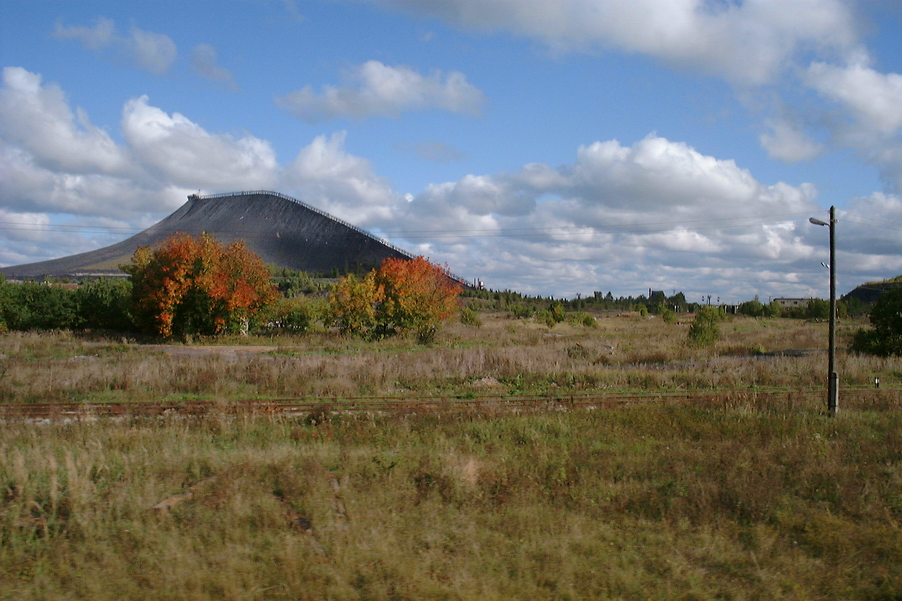 Slag heap